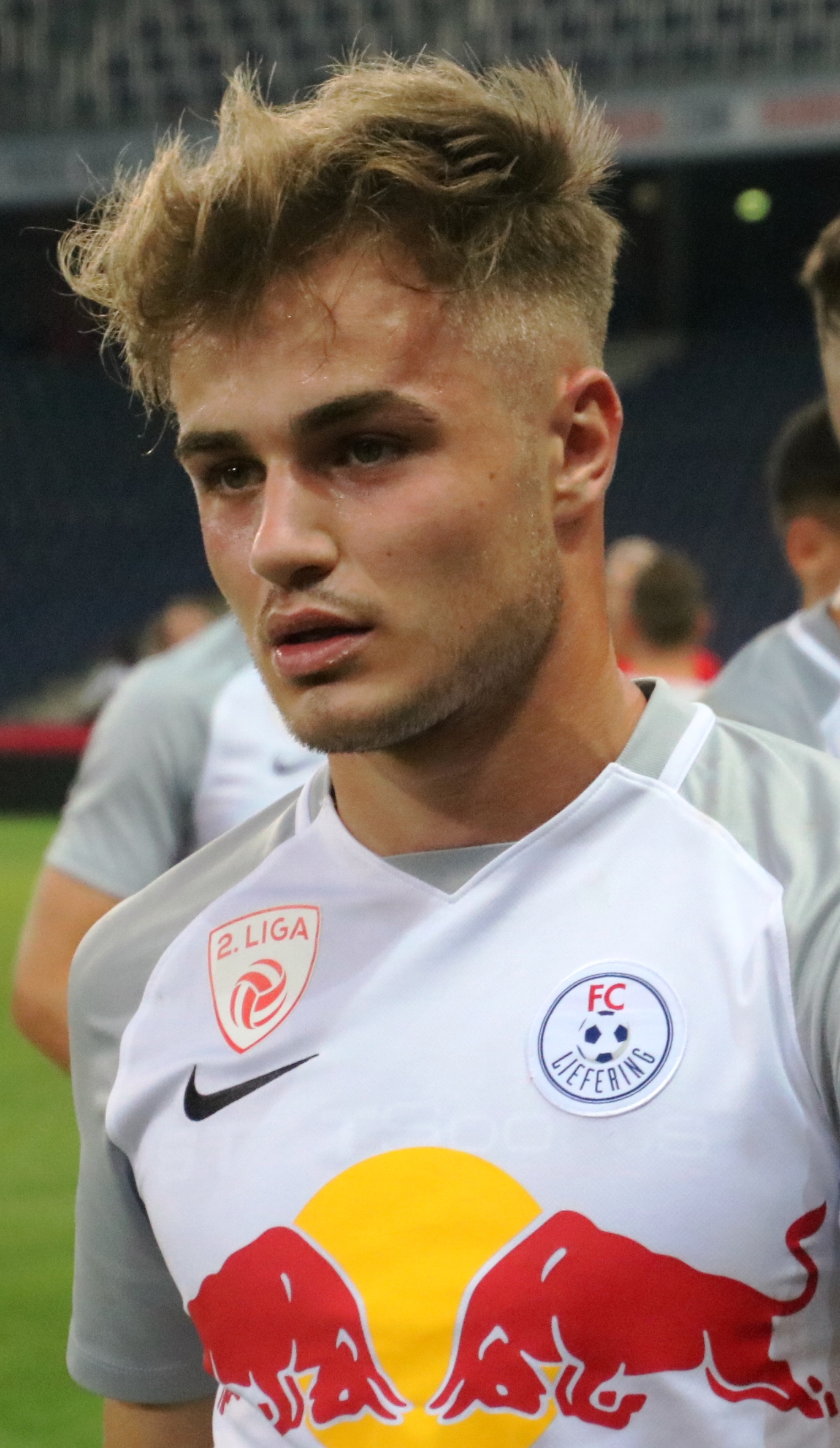 Austria 2nd league league match